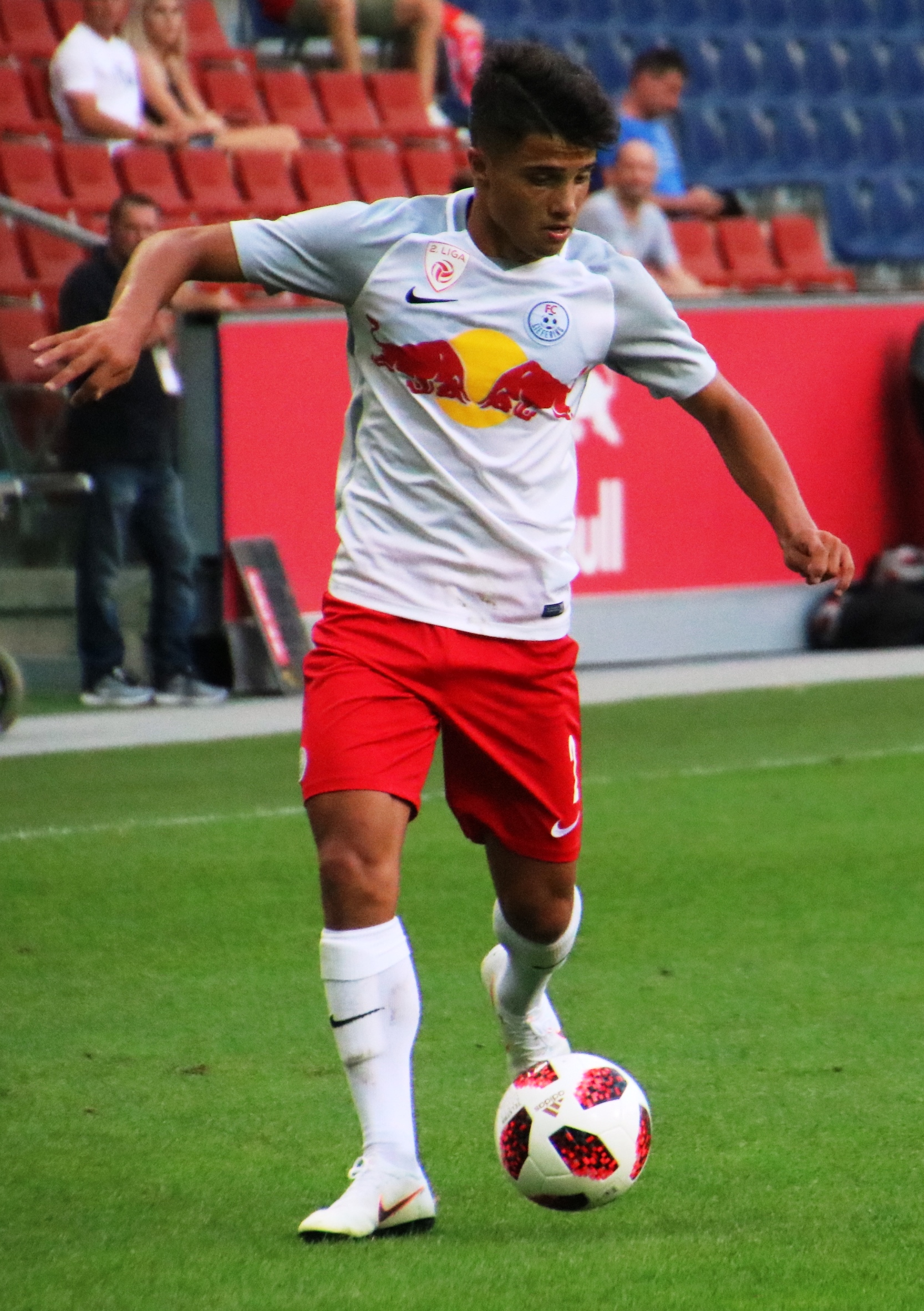 2nd league leaguematch 2nd round